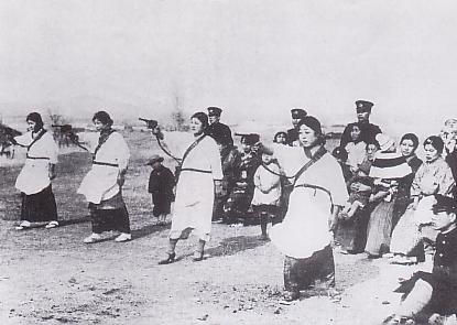 Shooting Training by policeman's family